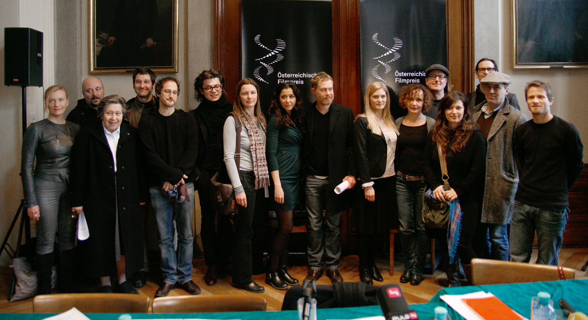 Some of the nominees during the press conference in advance of the Austrian Film Awards 2011 at the Odeon theater in Vienna.